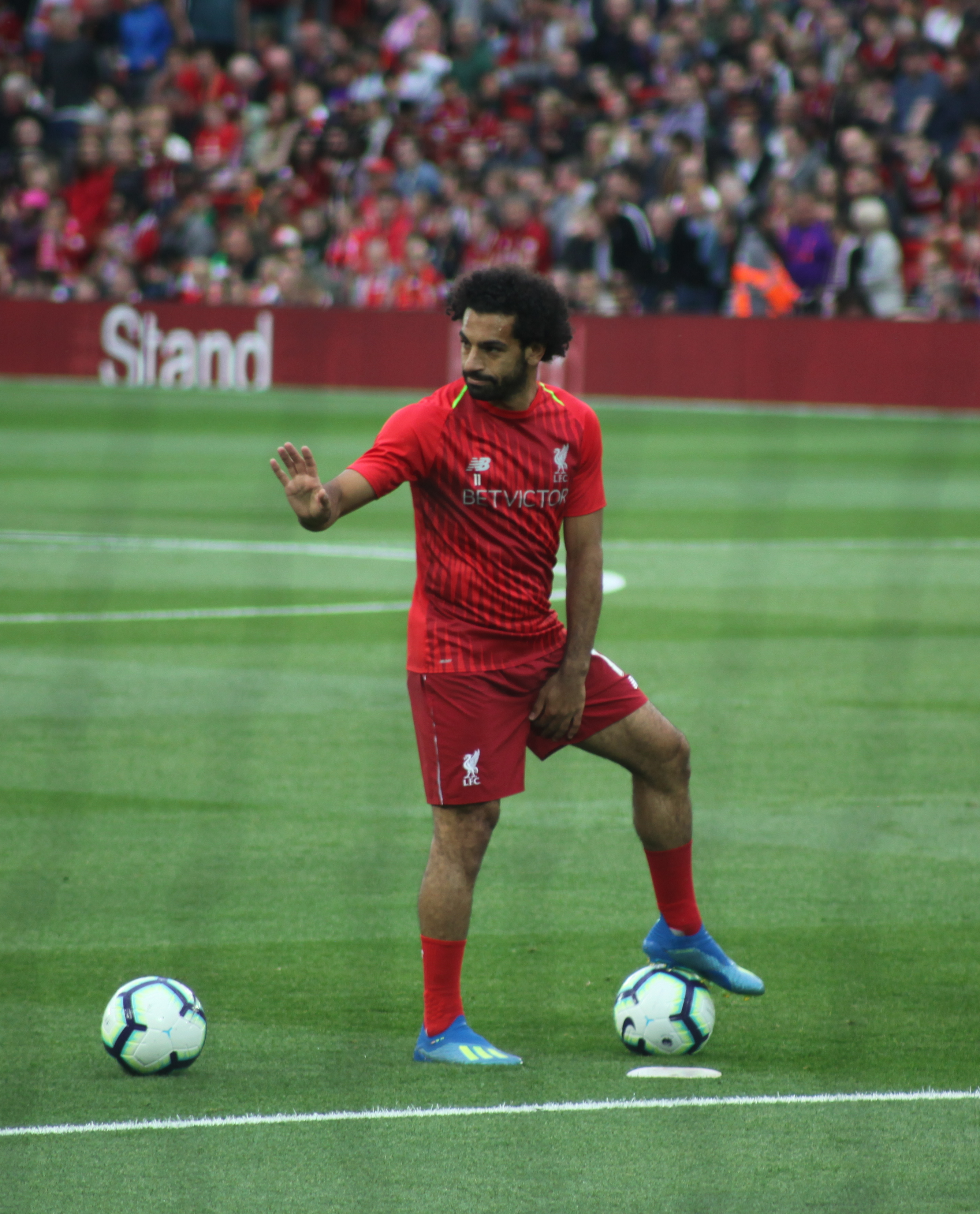 Mohamed Salah in Liverpool training